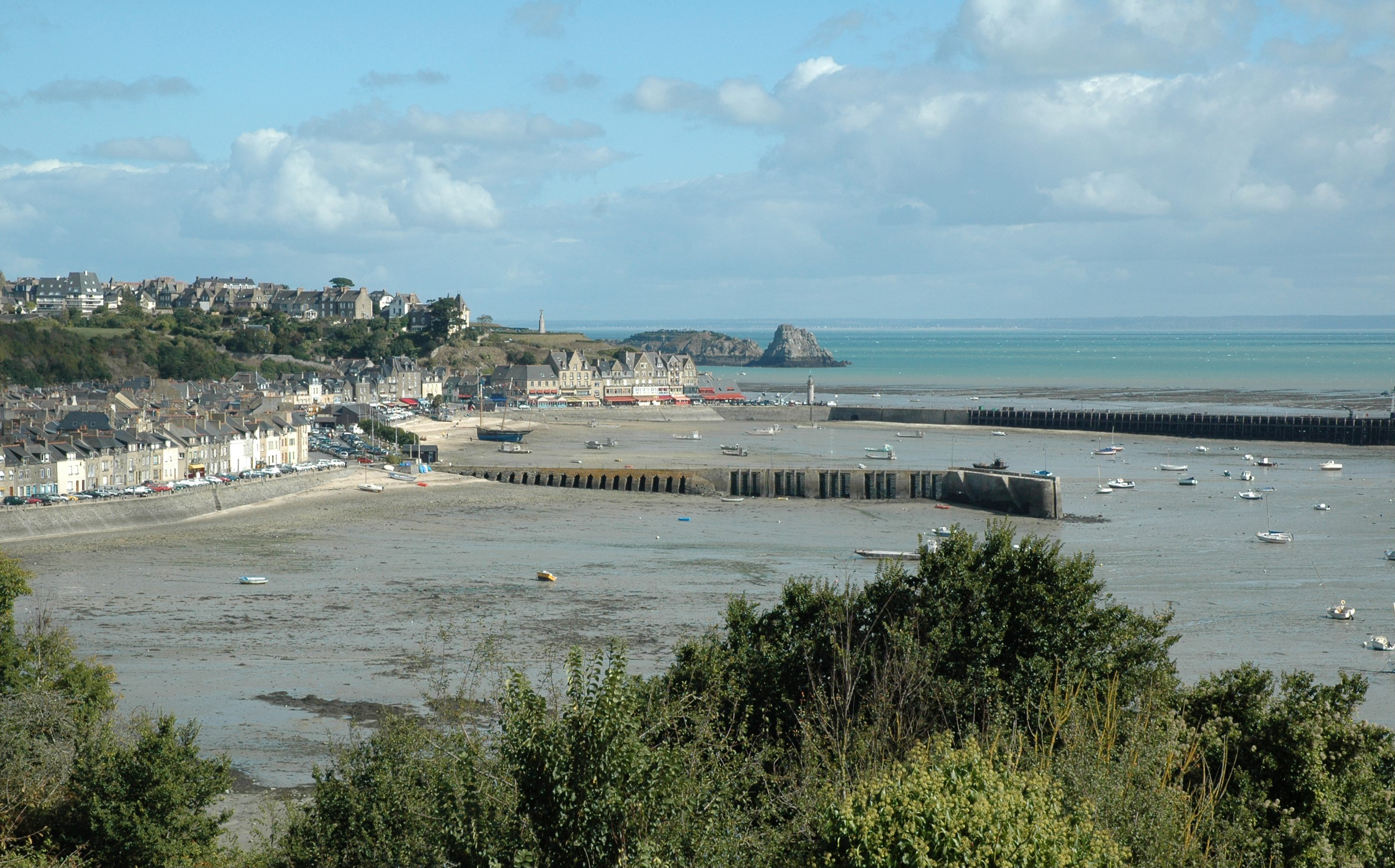 View of the port of Cancale.